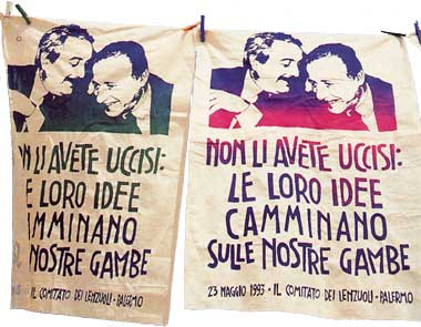 Sheets commemorating Giovanni Falcone and Paolo Borsellino. The sheets, exposed as a sign of protest against mafia from the people, read: "You did not kill them: their ideas walk on our legs".